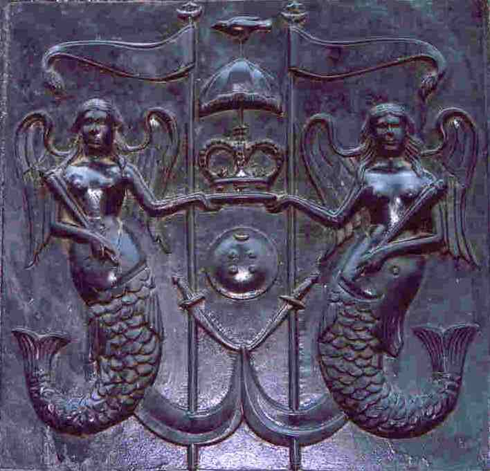 Photo of Seal at gate of Mausoleum of the Kings of Oudh at Sibtainabad Imambara, Matiaburj - Calcutta, India (It is over 160 year old building, King Wajid Ali Shah the King of Oudh, decided to settle in Calcutta in 1856, after his deposition, he created in Matiaburj)